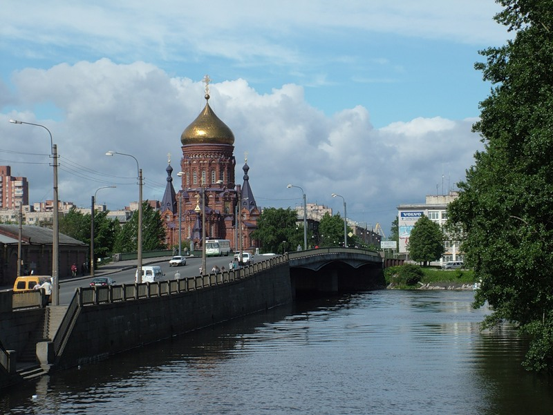 Двинская улица